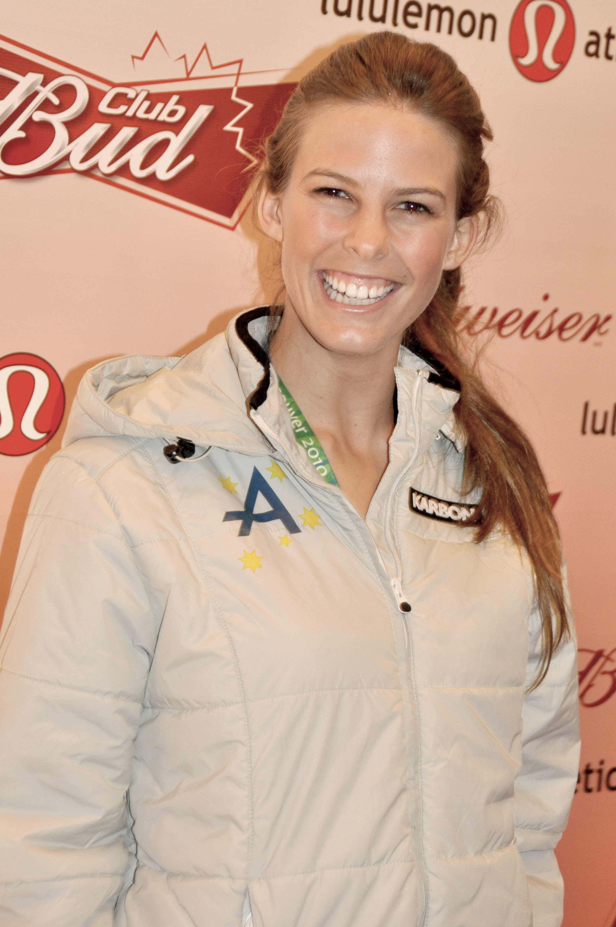 Portrait picture of Torah Bright, Australian snowboarder, at the "Club Bud" (sponsored by Budweiser) during the 2010 Winter Olympic Games in Vancouver